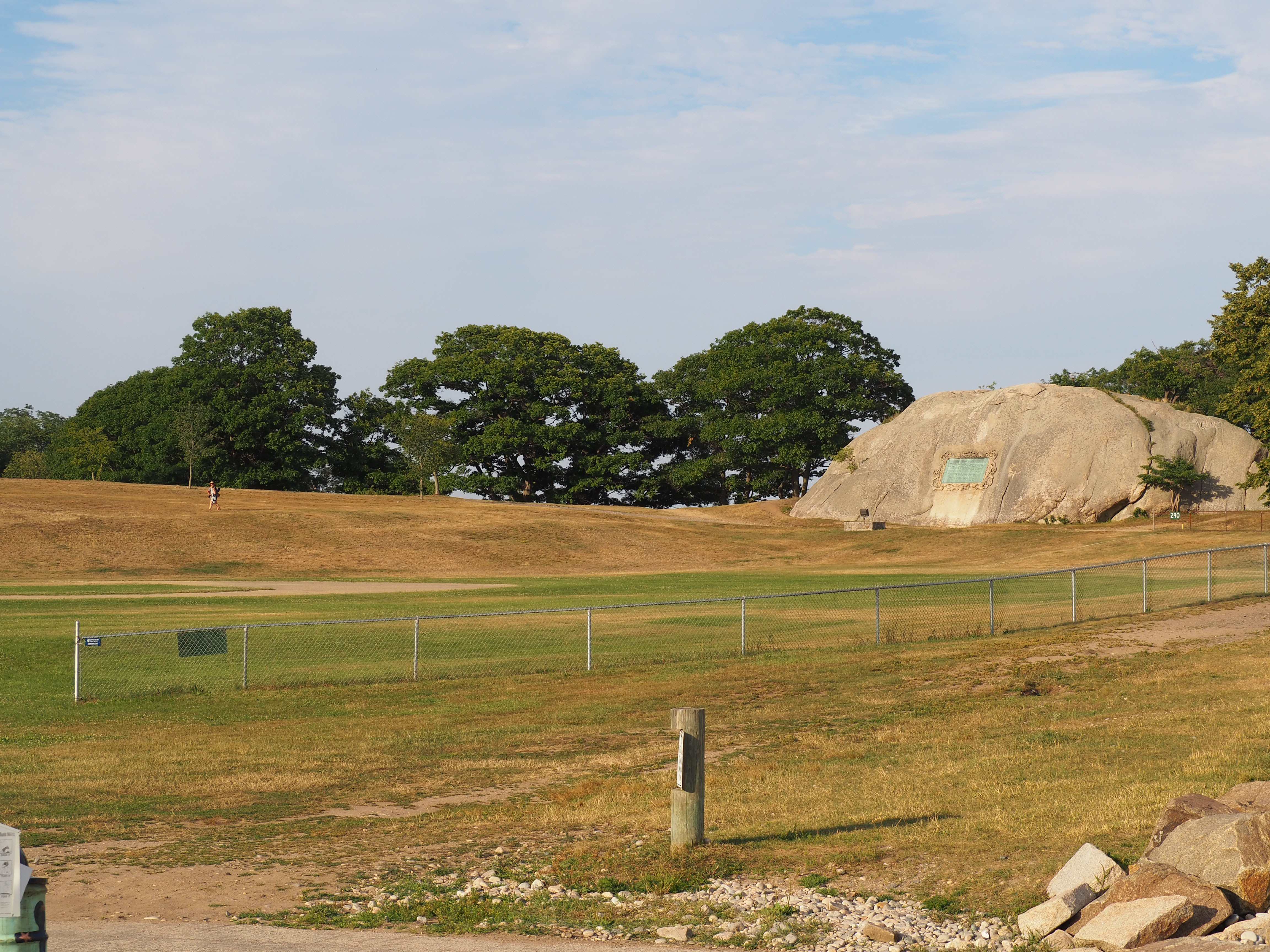 The giant rock visible on the left, large field in the mid-ground